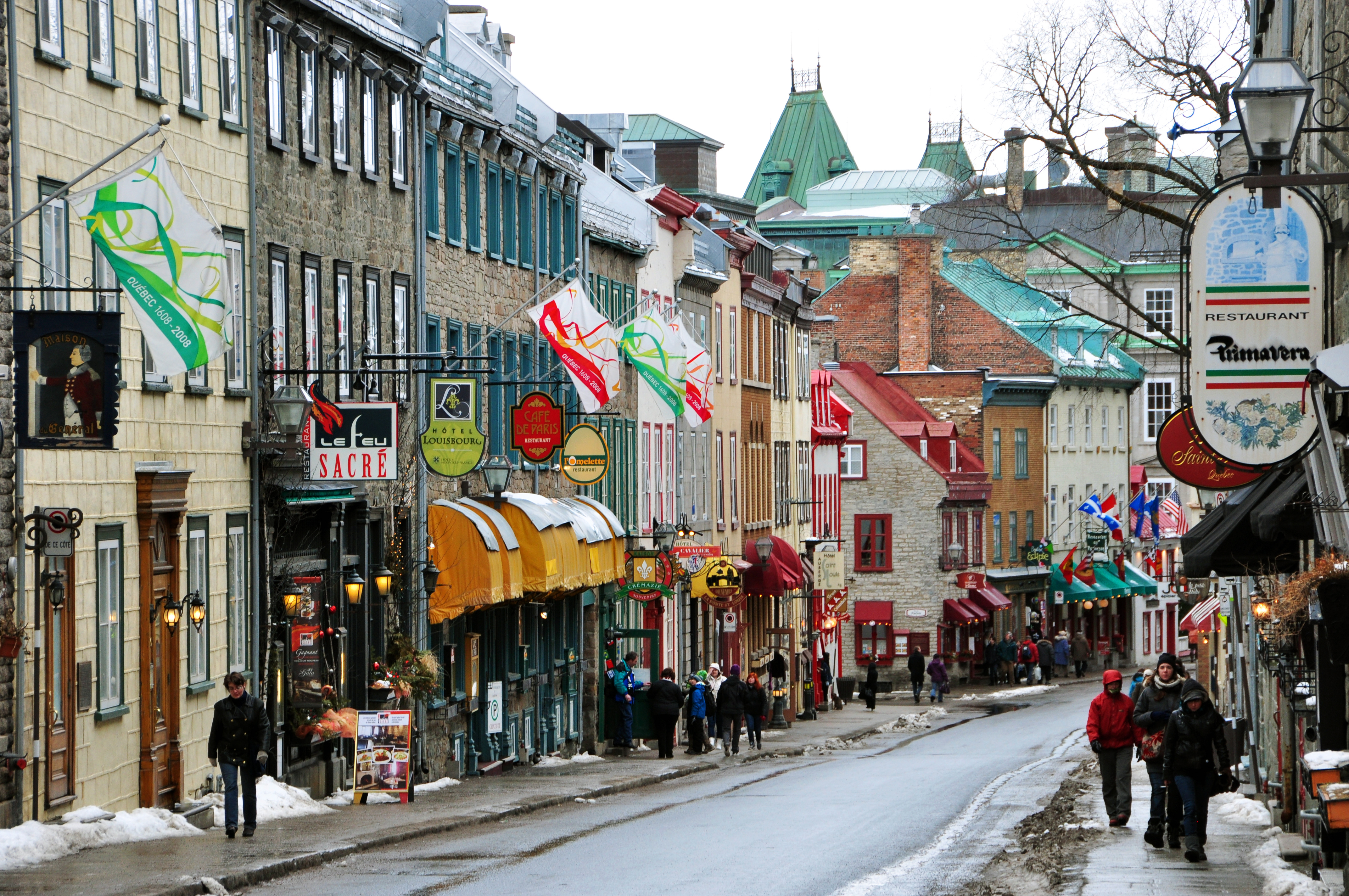 Quebec City Rue St Louis Upper Town winter 2010.